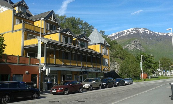 The buildings in Øvre Årdal